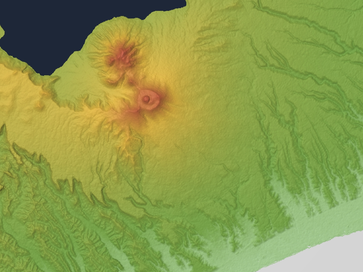 Mount Tarumae and Mount Fuppushi in Hokkaido, Japan.